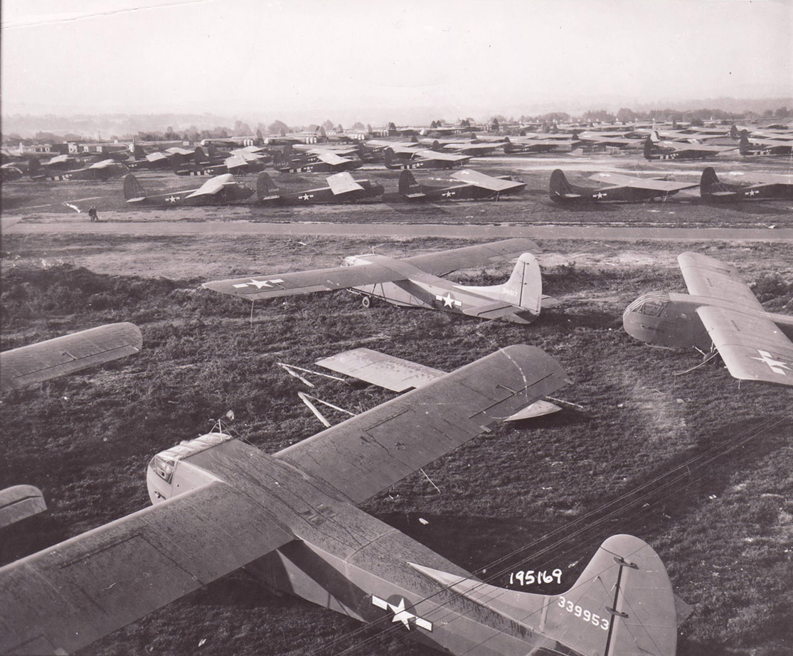 The 101st Airborne Division was reinforced with twelve glider serials on September 18. Here, Waco gliders are lined up on an English airfield in preparation for the next lift to Holland.